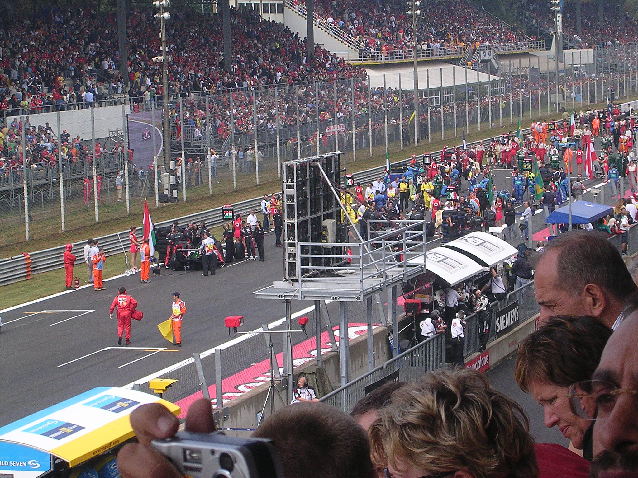 The Autrodomo Nazionale of Monza (italy) during a race in september 2004